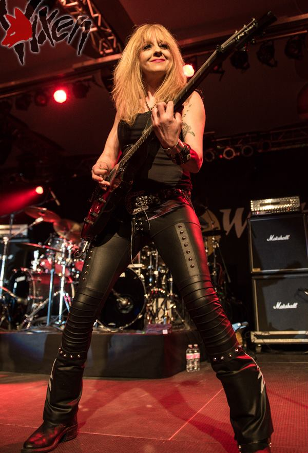 Gina performing